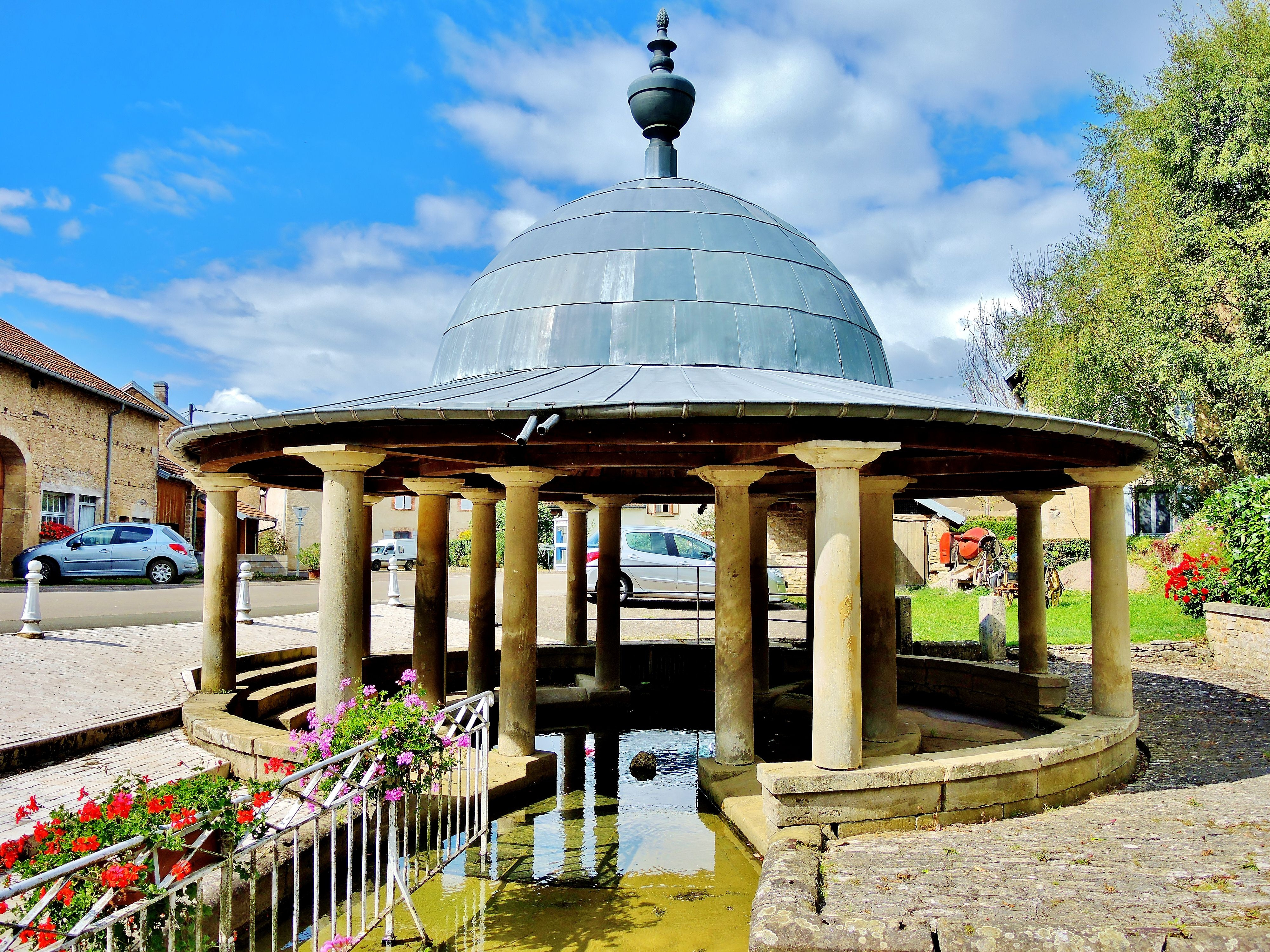 Fountain and wash-hose in Fontenois-lès-Montbozon, France